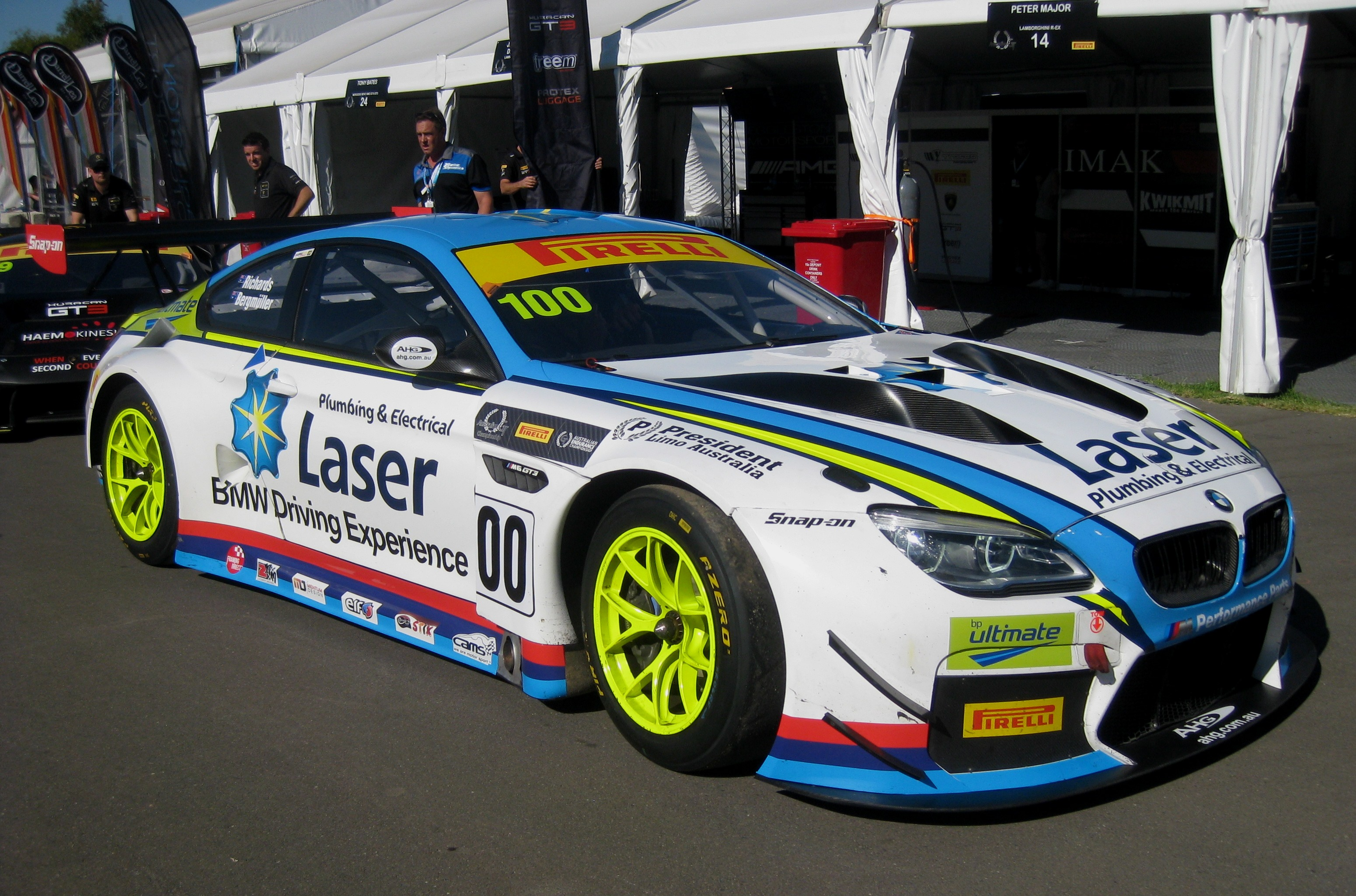 The BMW M6 GT3 of Steven Richards and James Bergmuller at the Adelaide Parklands Circuit for the opening round of the 2017 Australian GT Championship.